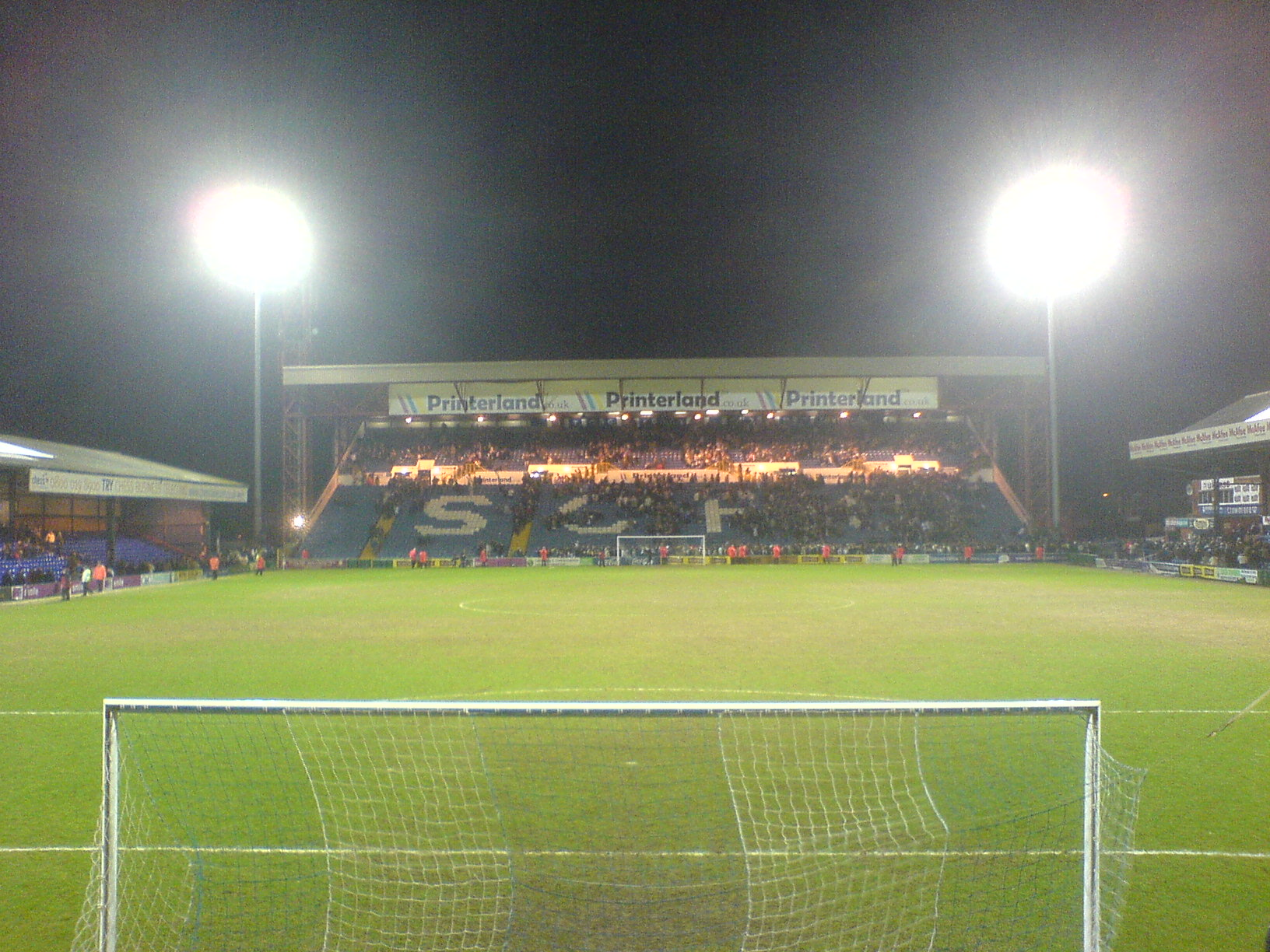 Cheadle End of Edgeley Park